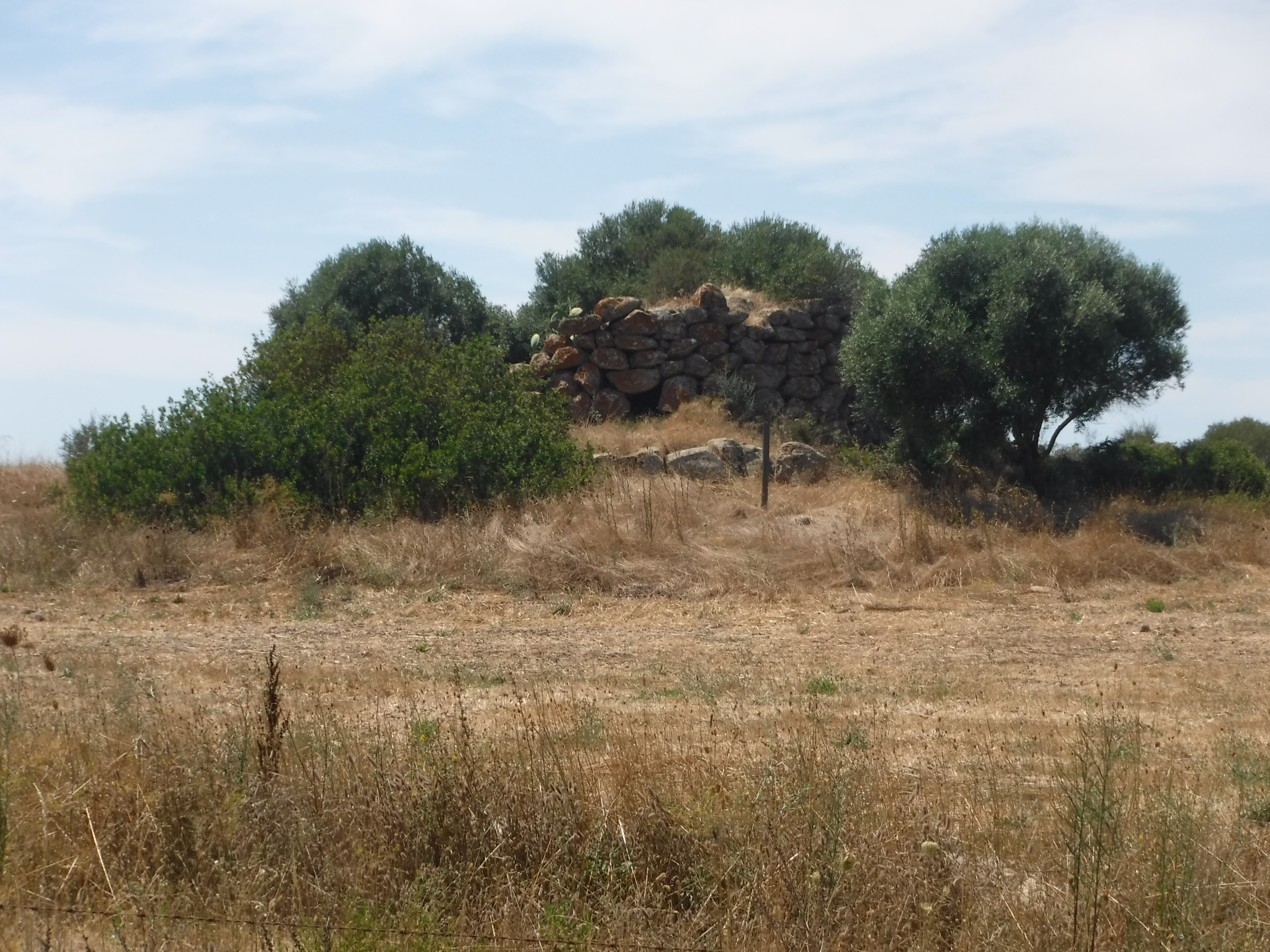 Nuraghe Masala, south of Olmedo, Sardinia